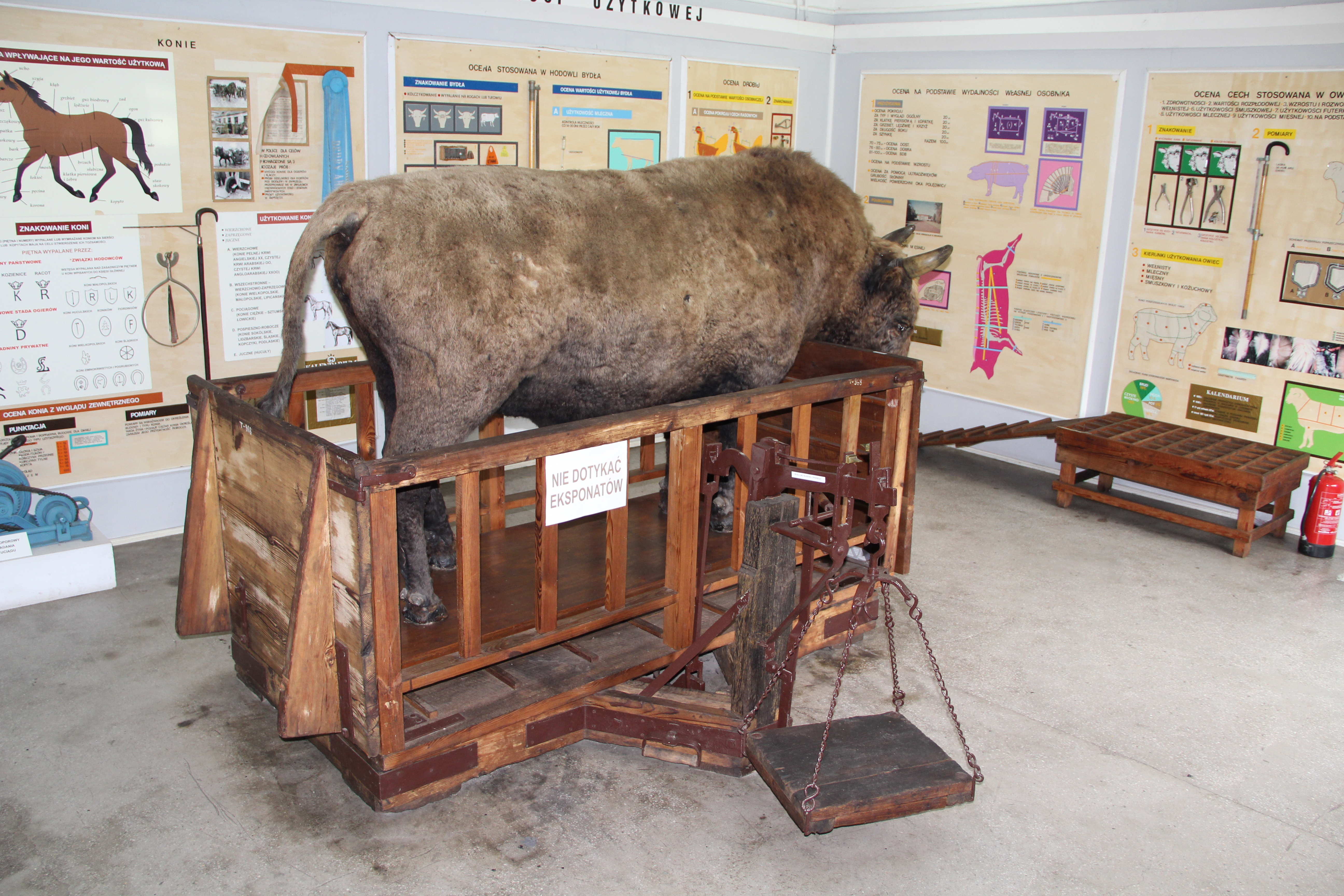 National Museum of Agriculture in Szreniawa